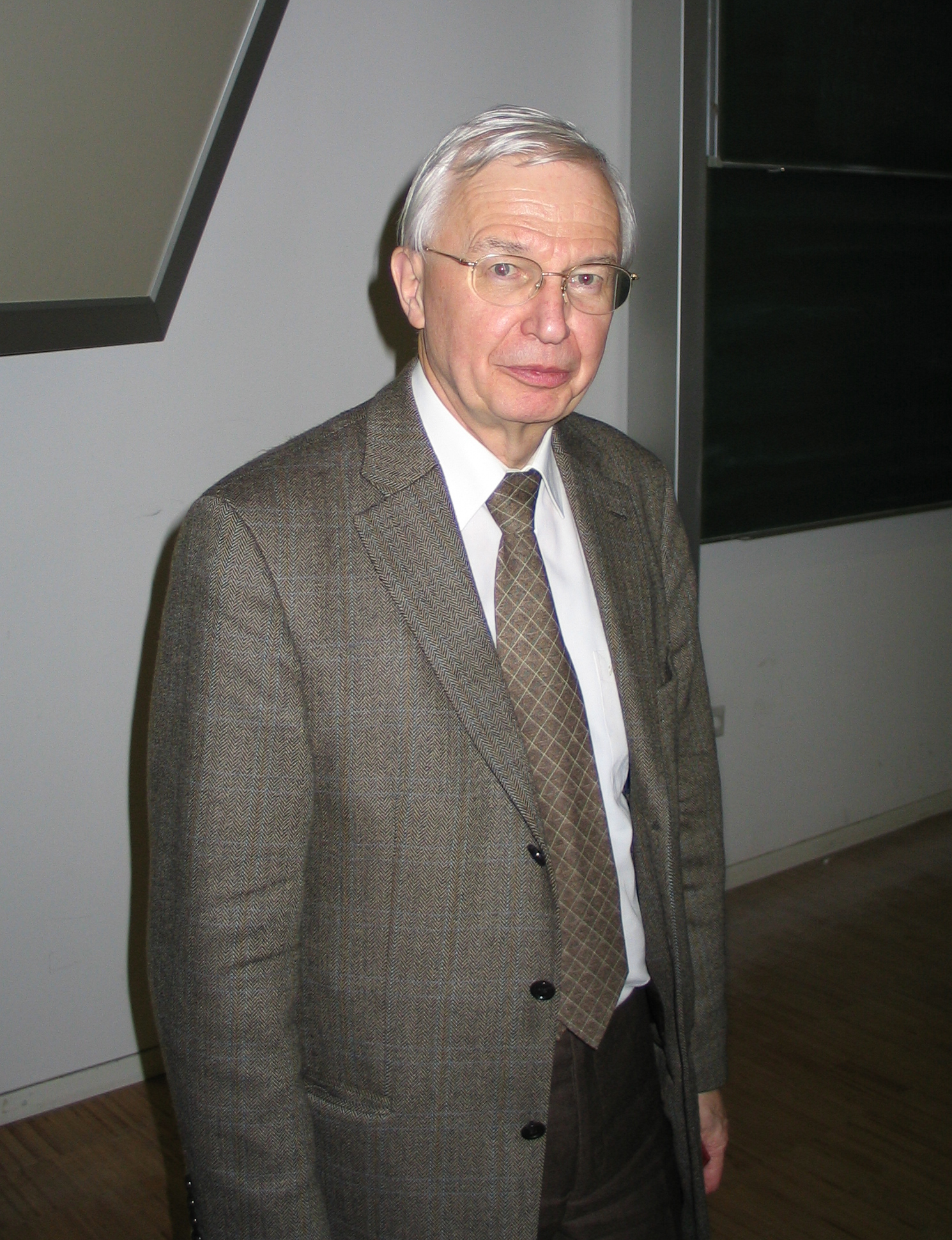 Jean-Marie Lehn after giving a lecture at Dresden TUD in Jan. 2008